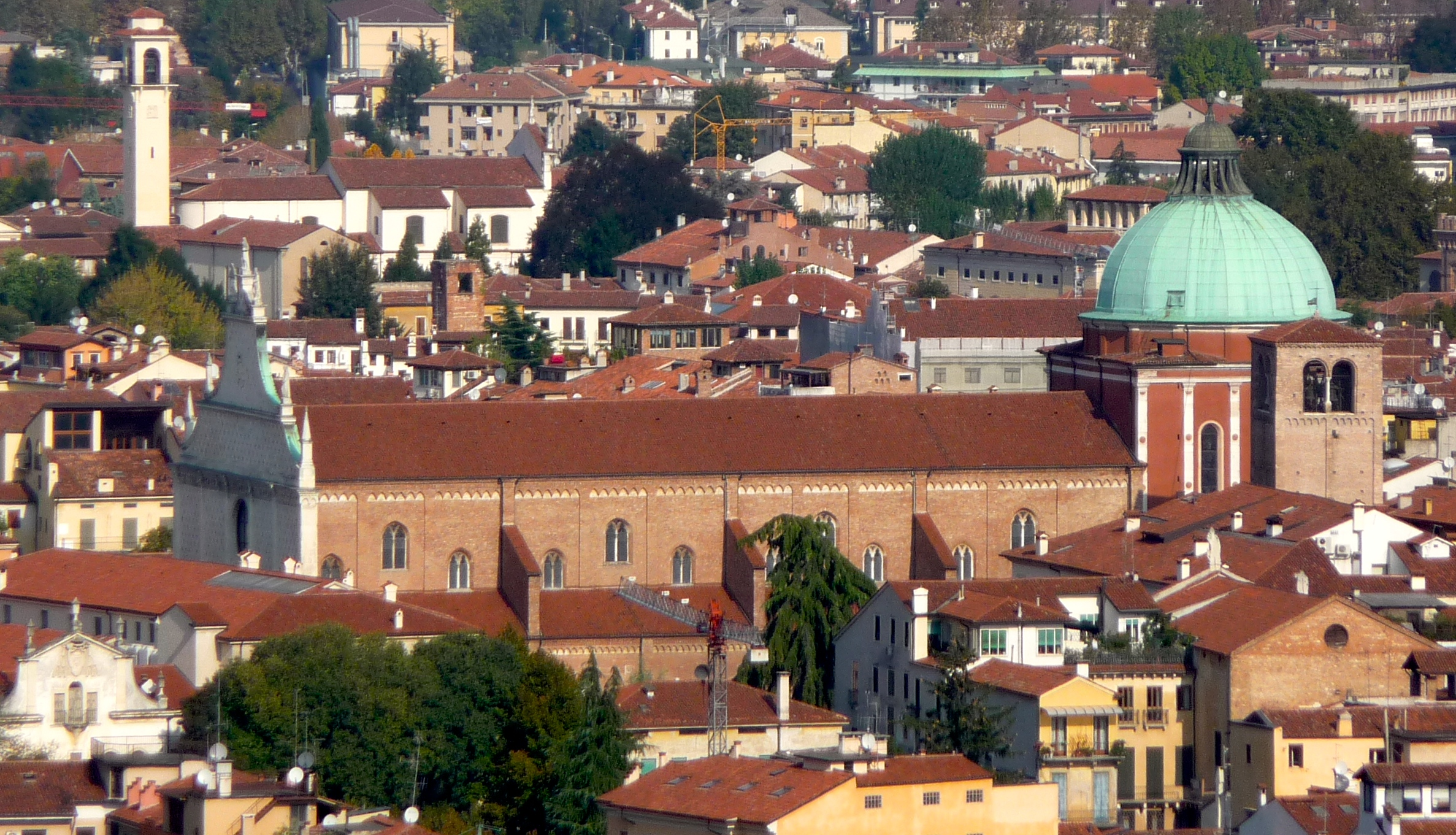 Panorama of the city of Vicenza from Piazzale della Vittoria in Monte Berico.